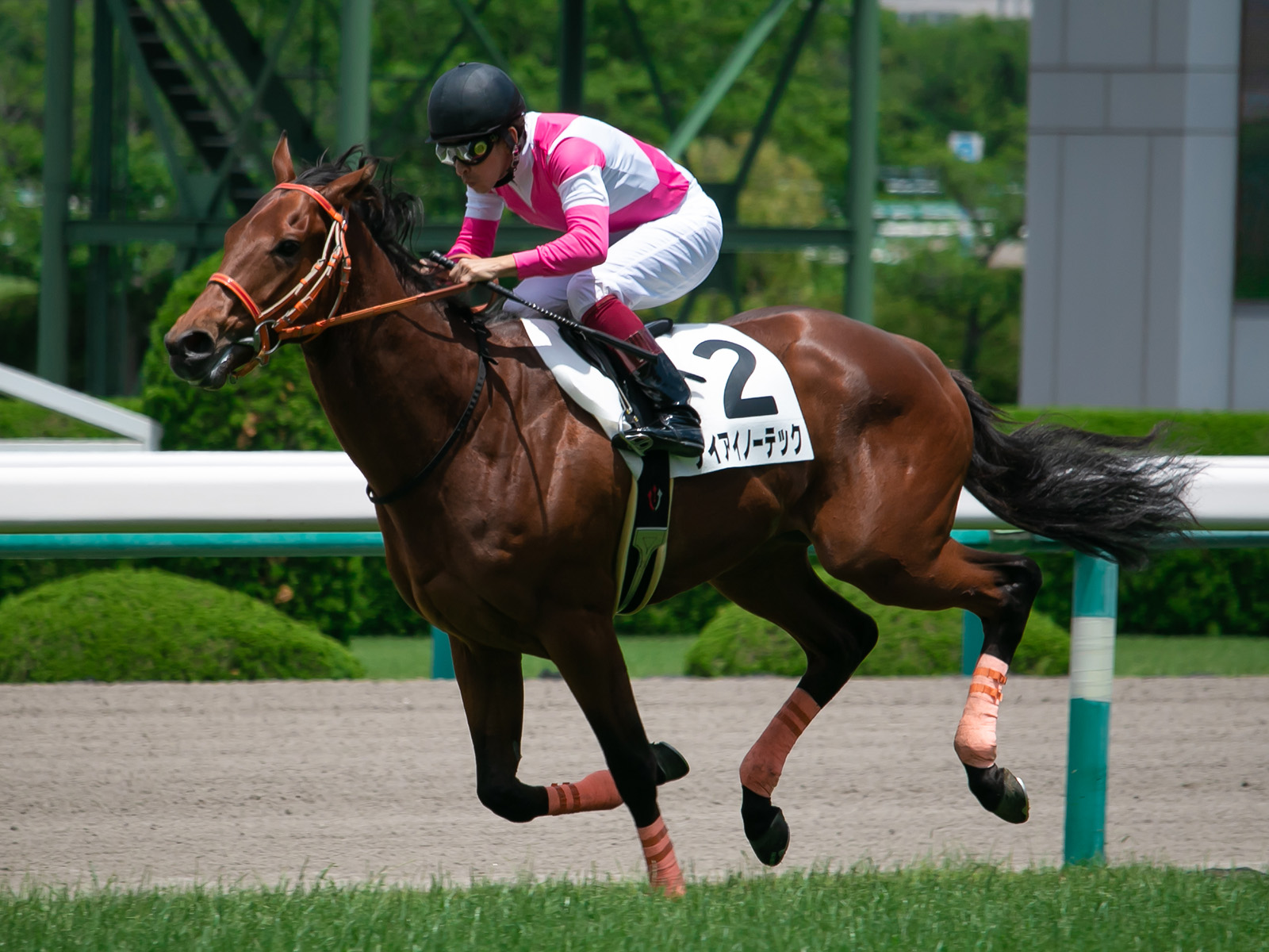 Keiai Nautique (JPN), Racehorse of Japan.